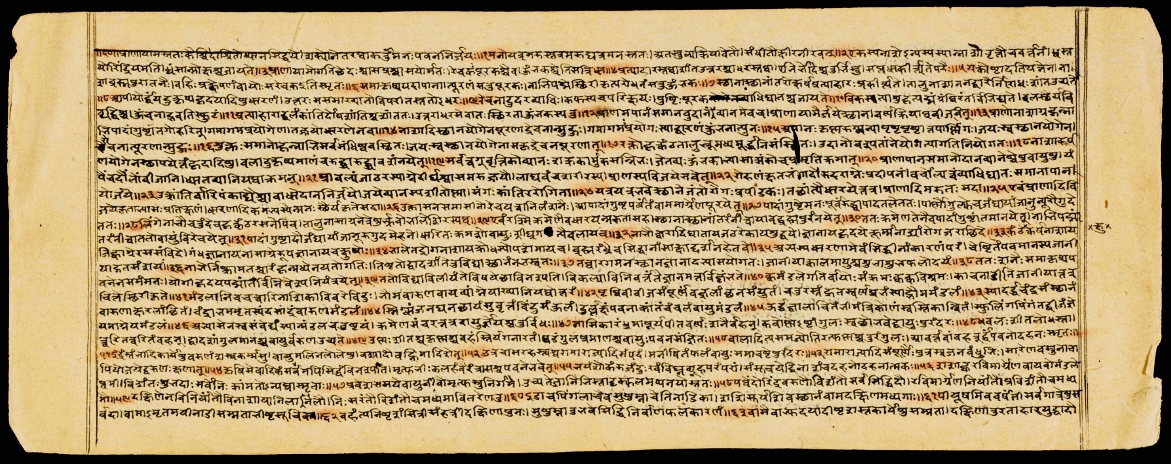 This Jain text Yogasastra manuscript survives in an incomplete form, as its last 8 chapters. The complete version has 12 chapters and was authored by the Jain monk Hemachandra of the Svetambara tradition within Jainism. The text is in Sanskrit. The text is notable for its 1 mm size Devanagari script. Even more miniaturized Devanagari and South Indian scripts were written by Indians, some of which are preserved in the Saraswathi Mahal Library in Thanjavur, Tamil Nadu. This yoga text follows the style of earlier Buddhist and Hindu yoga texts. It also teaches breath exercises, meditation, and ethics, but is set in Jain theology and divination framework. Cecil Bendall purchased this manuscript in February 1885 in Bombay. The manuscript is now preserved as MS Add.2277 at the Cambridge University LIbrary. Language: Sanskrit Script: Devanagari (miniature) The photo above is of a 2D manuscript artwork created about 800 years ago, itself a copy from a text that was authored earlier. The artwork and this 2D photograph, therefore, fall under Wikimedia Commons PD-Art licensing guidelines. Any rights I have as a photographer is herewith donated to wikimedia commons under CC 4.0 license.